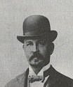 Portrait of Wladimir Semjonowitsch Golenischtschew, Russian Egyptologist